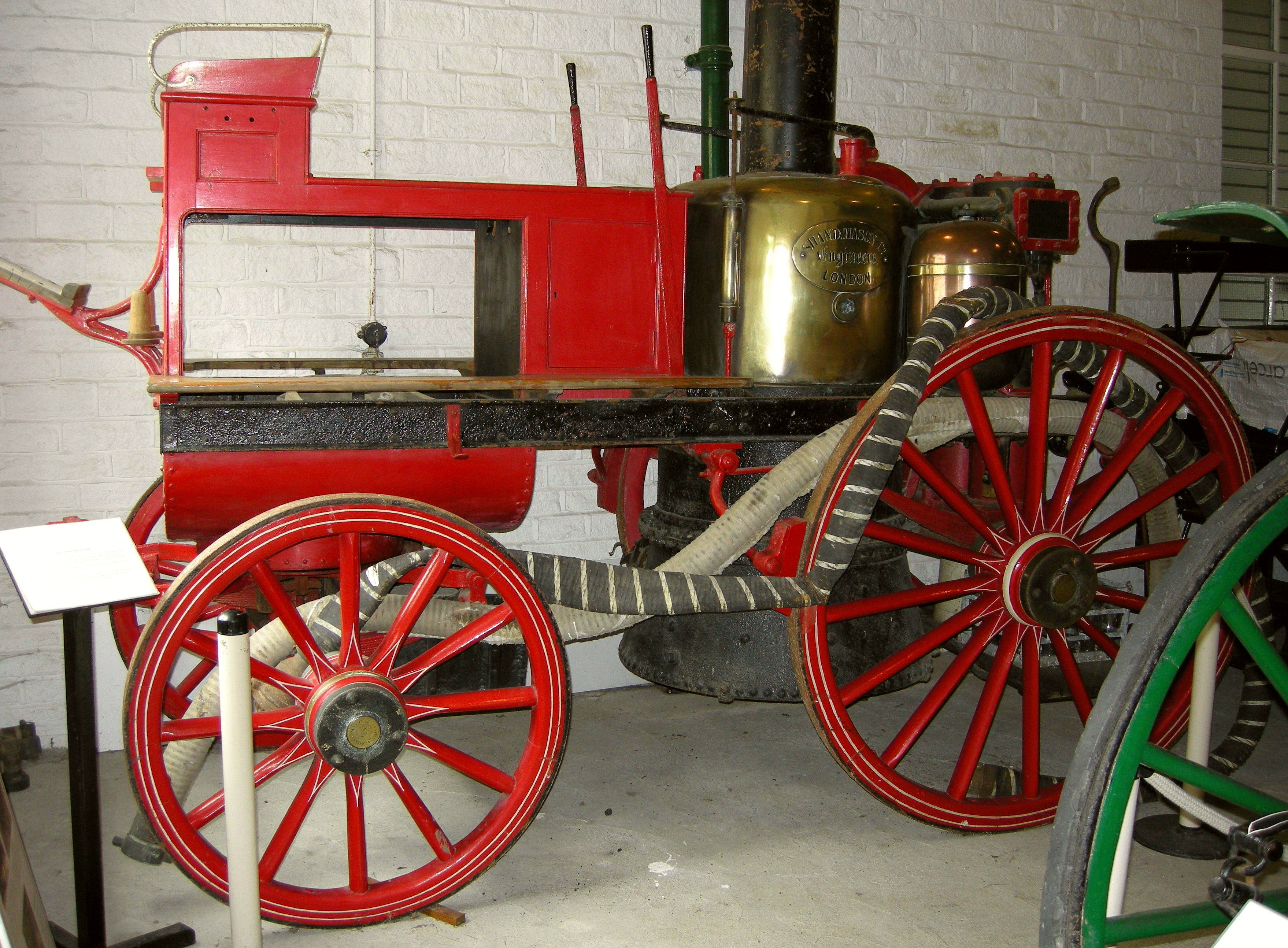 Shand-Mason steam fire pump in Bradford Industrial Museum, Bradford, West Yorkshire, England.